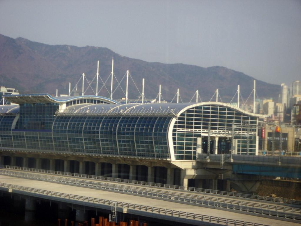 Gupo Station (Busan Subway #3), Busan City, S. Korea.